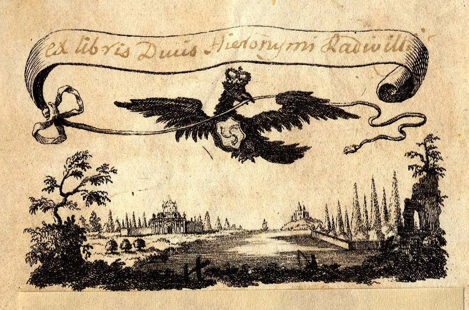 Ex-libris of Hieronymus Radziwill. Radzwills’ Archives and Niasvizh (Nieswiez) Library